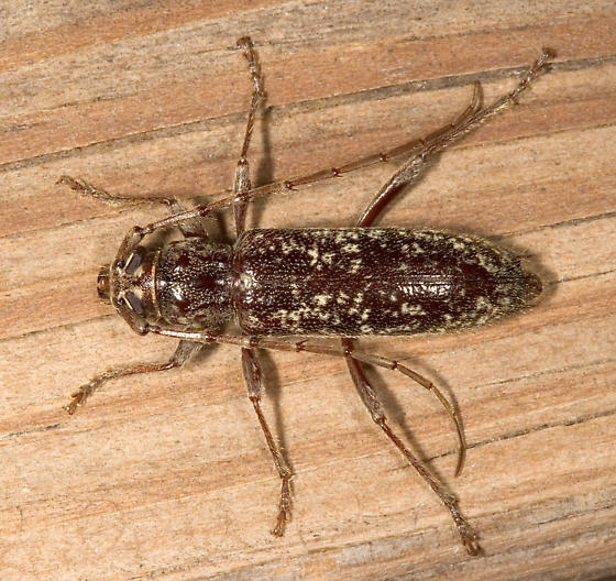 Parelaphidion aspersum Parelaphidion asperum (Haldeman, 1847). Greenwood County, South Carolina, USA. Size: 19mm, head to abdomen